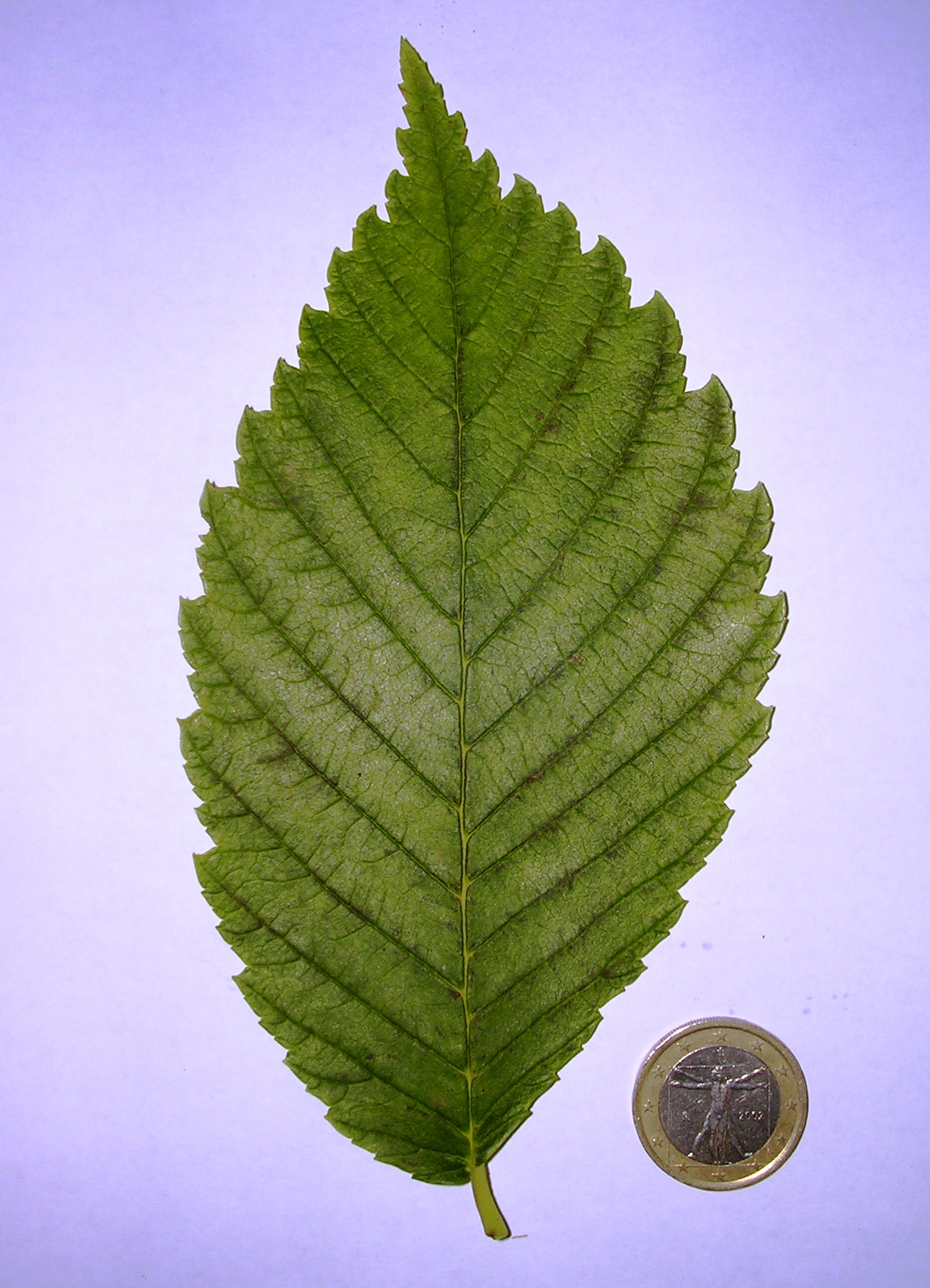 Photo of Princeton Elm leaf, taken by author, August 2008.